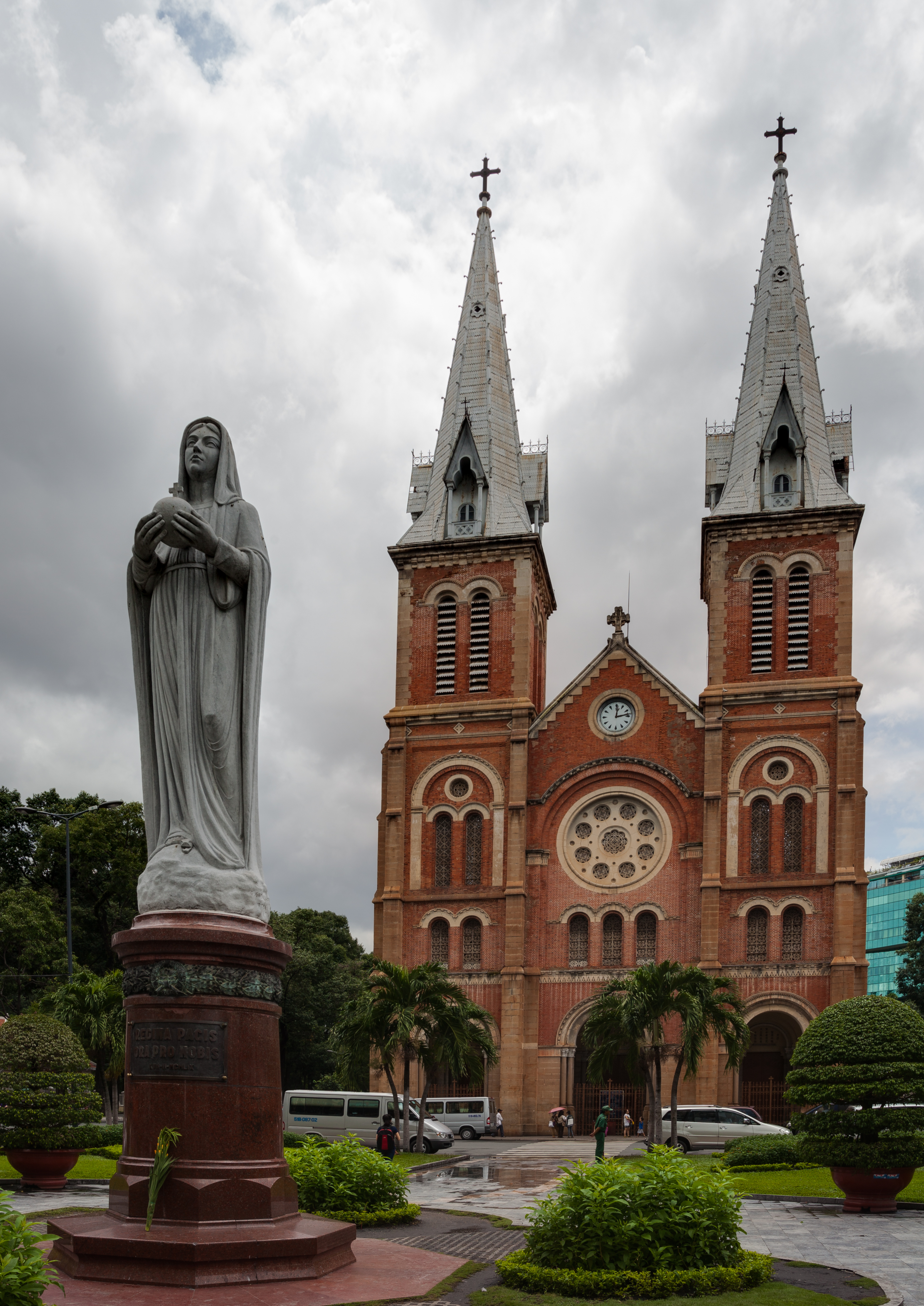 Notre-Dame Basilica, Ho Chi Minh City, Vietnam.